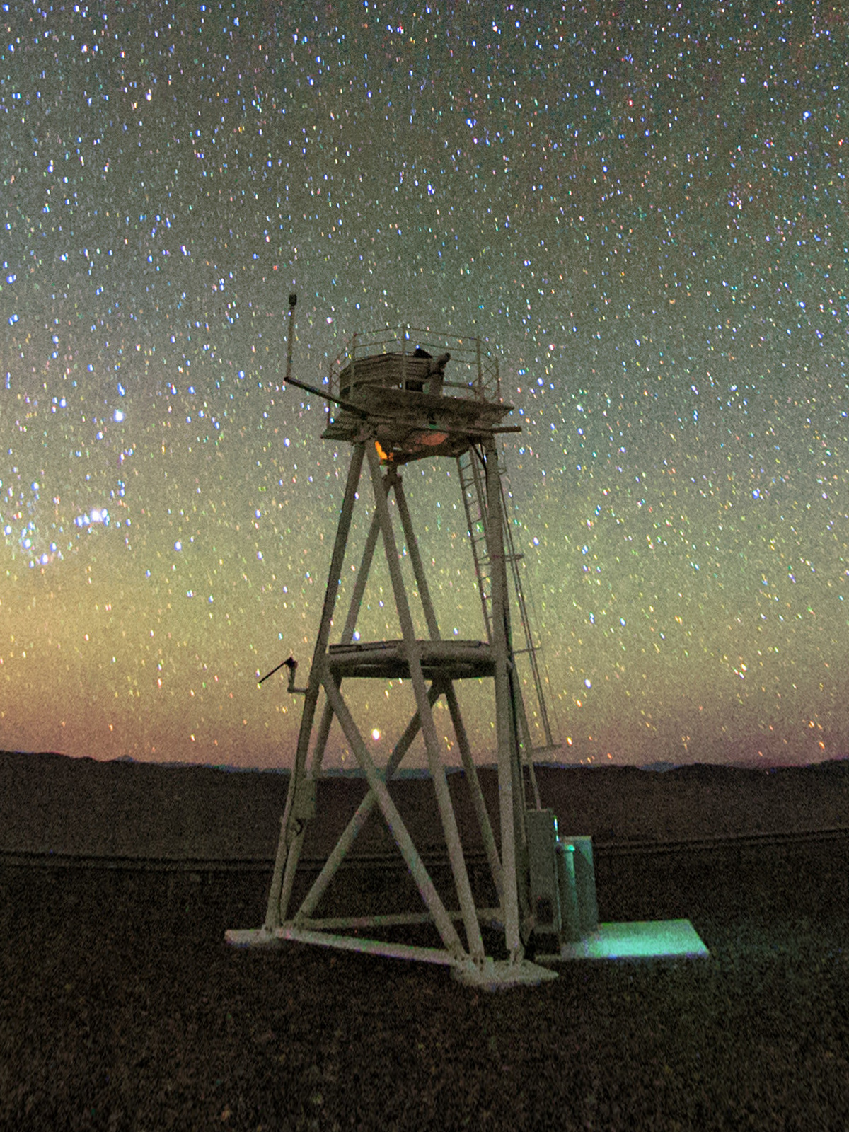 Crop of DIMM Credit: ESO/M. Claro